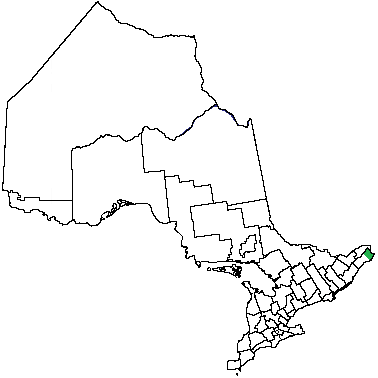 the location of the old county of glengarry, the current location of north and south glengarry